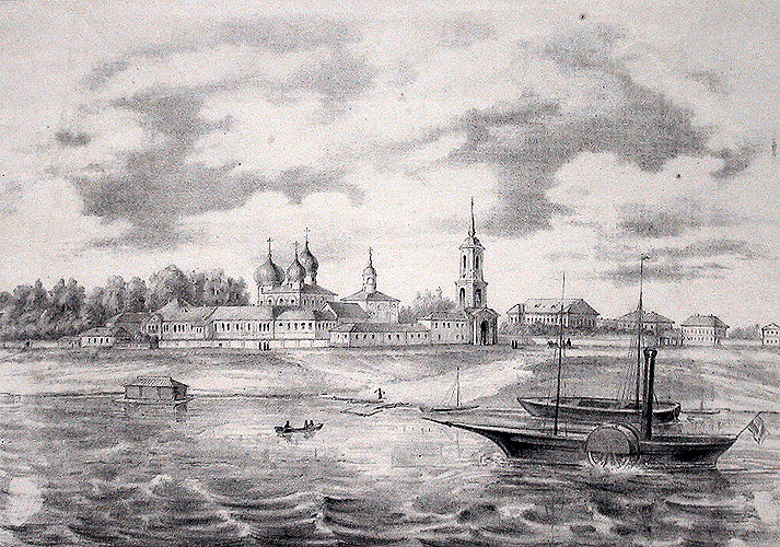 Novgorod. Antoniev Monastery (Engraving, 1860, Saint-Peterburg)